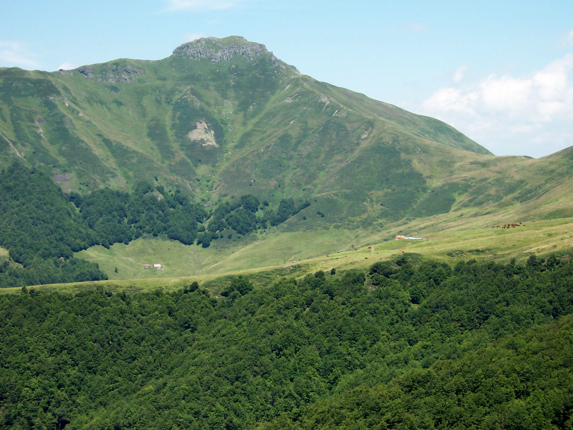 The Peyre Arse seen from under the Puy Griou in the valley of Mandailles